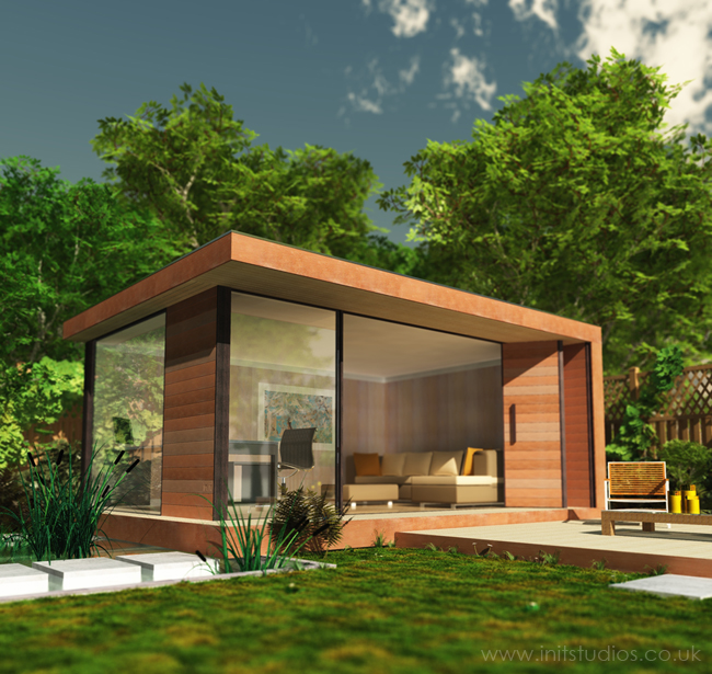 initstudios - contemporary garden studio